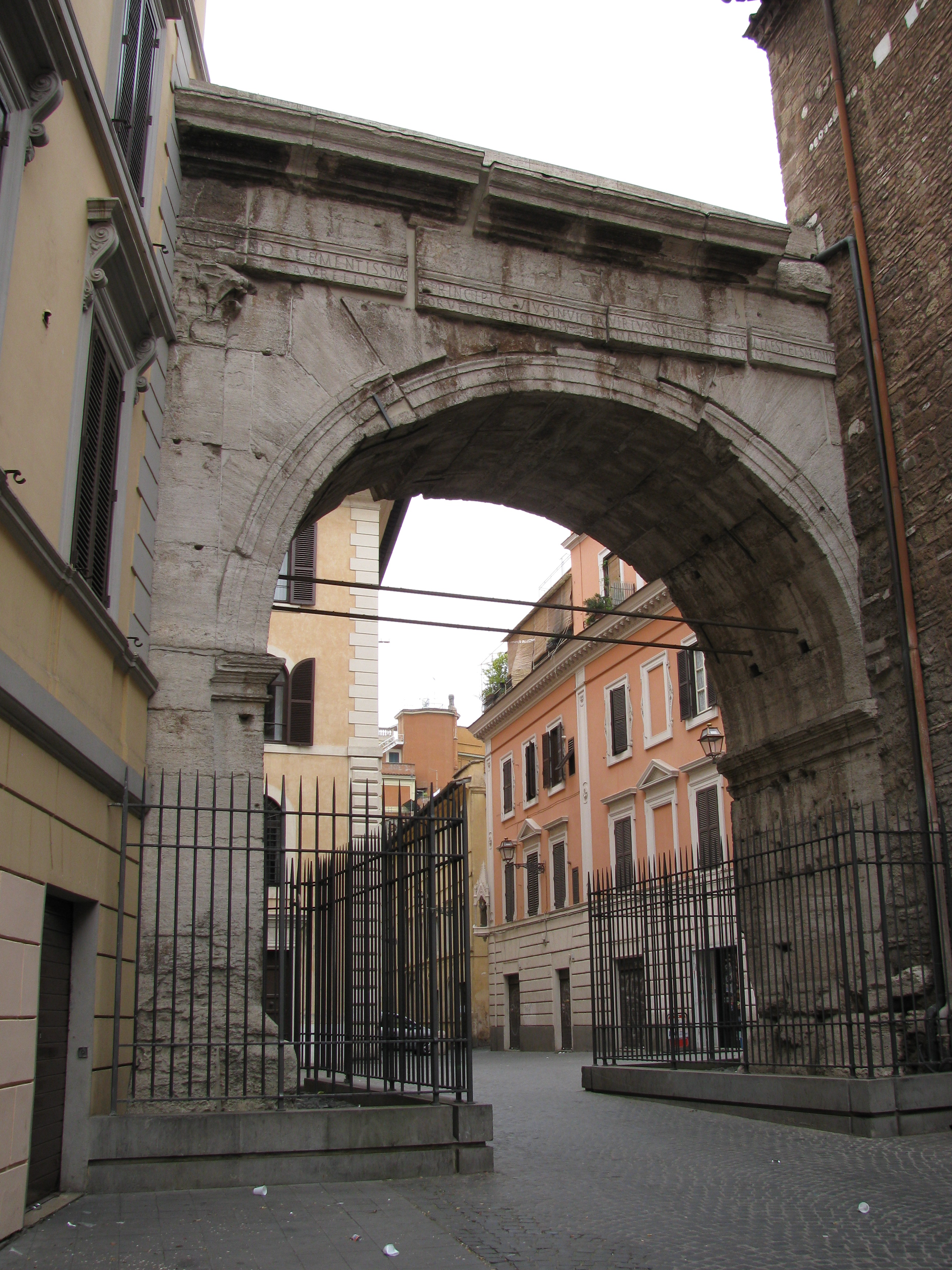 Gallianus' Arch, East side. Roma